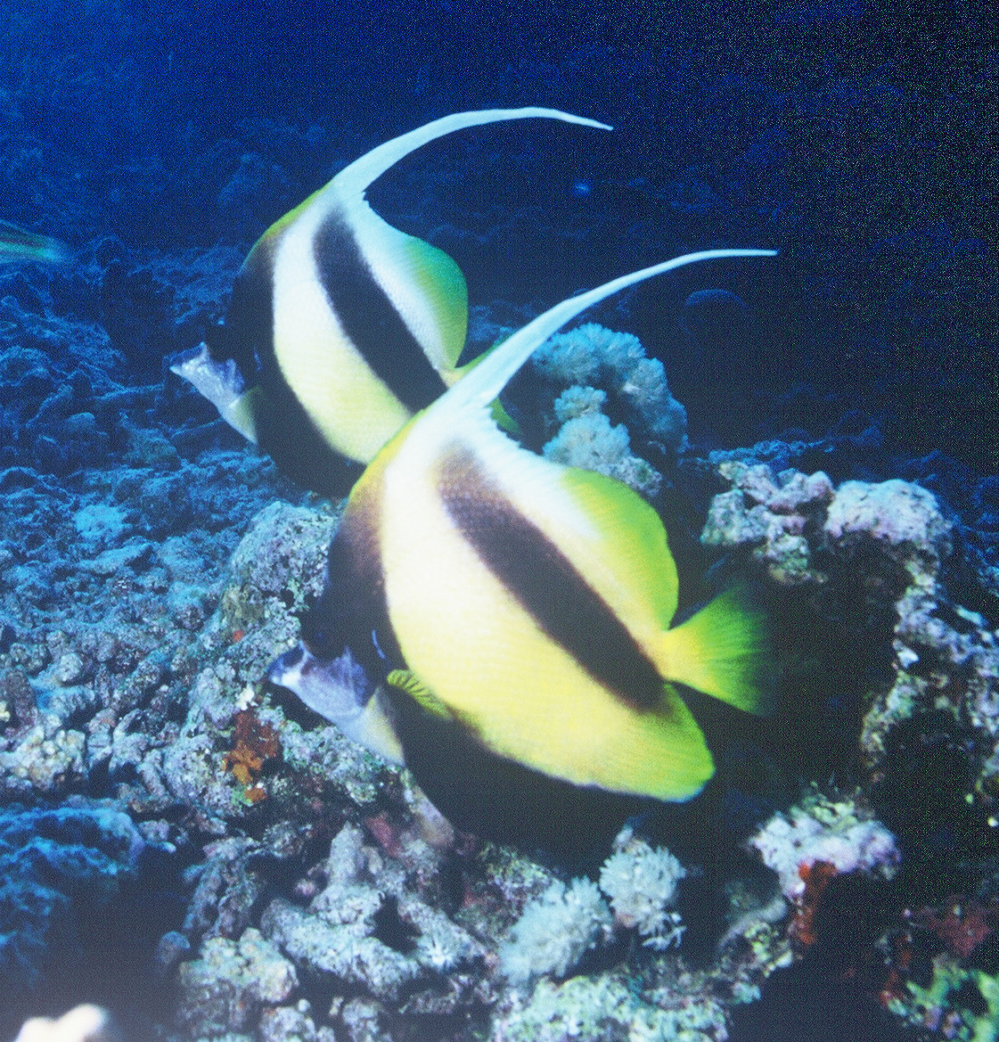 Heniochus acuminatus.